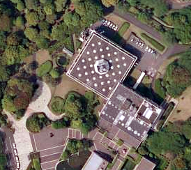 The Geographical Survey Institute took the aerial photograph in Shizuoka City, Shizuoka Prefecture on May 1, 2009.